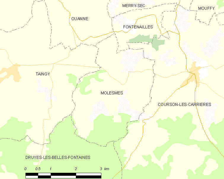 Map of French municipality Molesmes